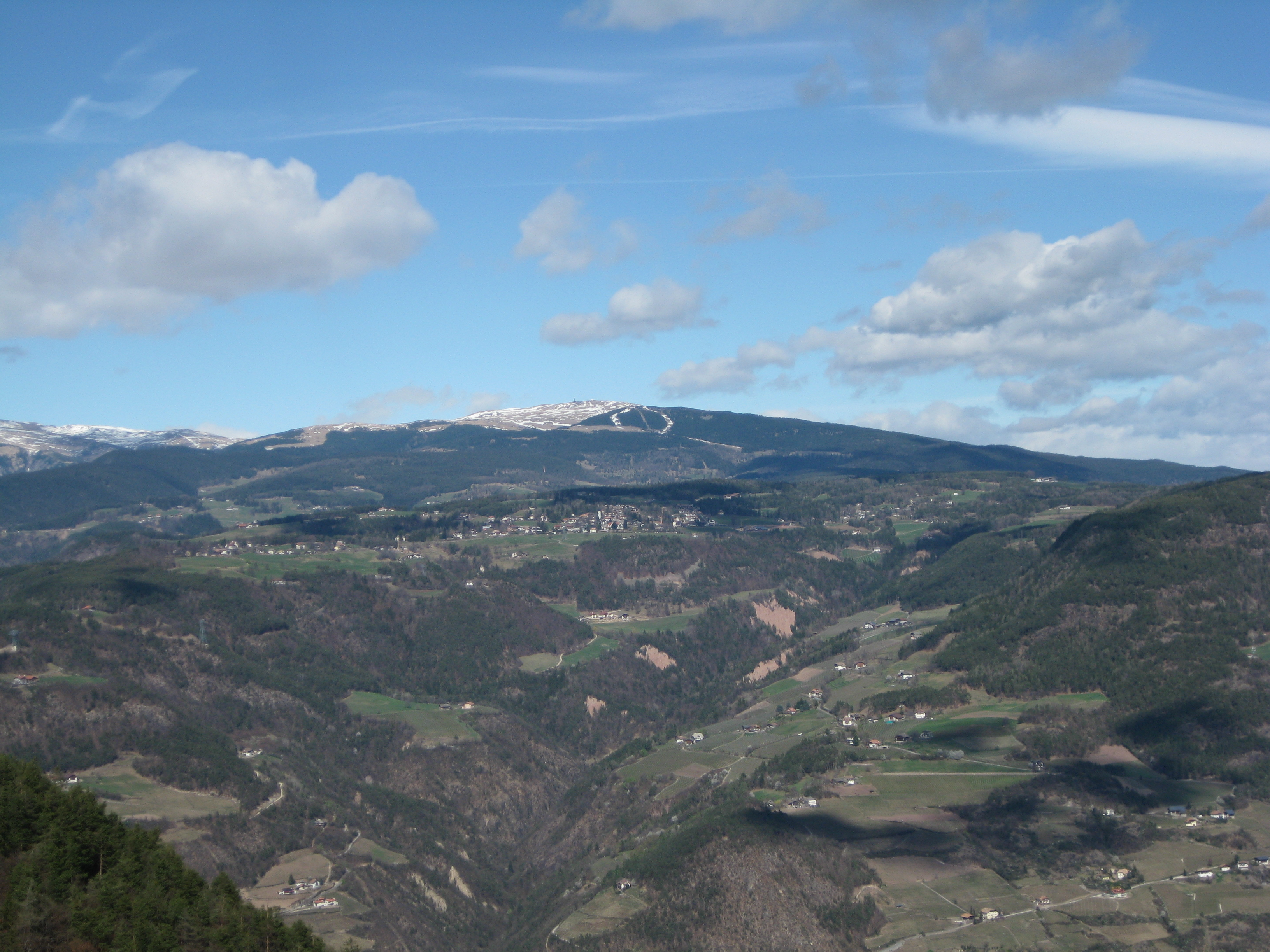 The Rittner Horn, a mountain in South Tyrol, as seen from Kohlern near Bolzano